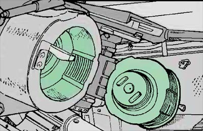 An interrupted screw-style breech plug.